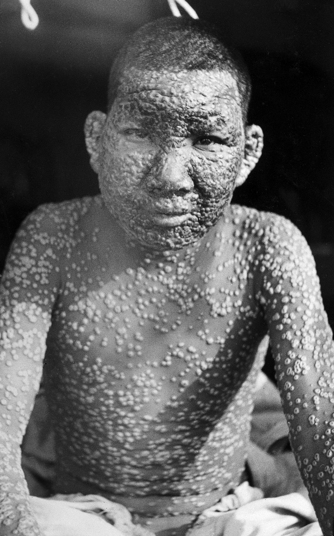 Gurkha with severe confluent smallpox with little constitutional disturbance. Archives & Manuscripts Keywords: gurkha; Smallpox; Sidney Smith